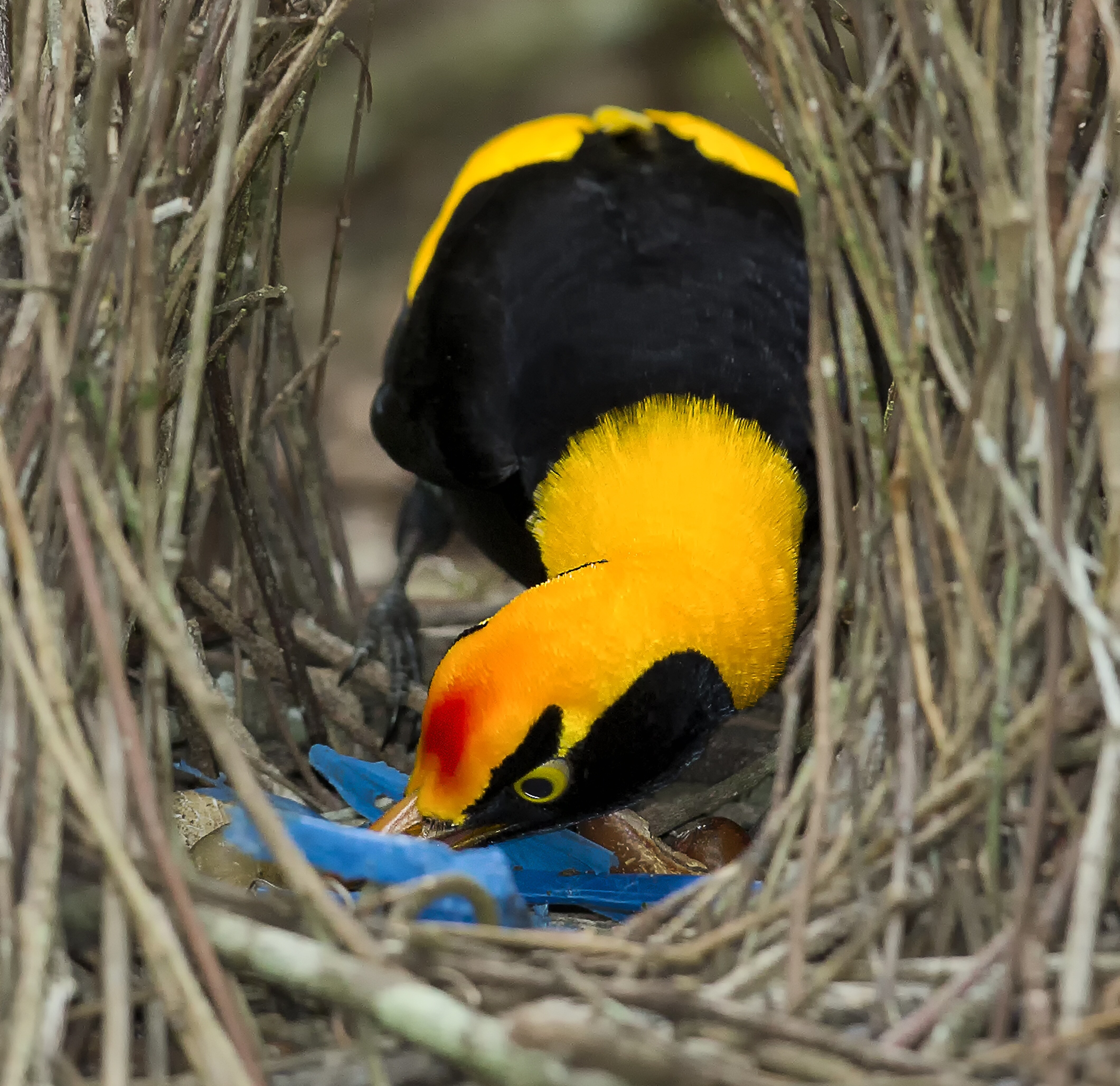 Regent Bowerbird rearranging his bower items during the early hours after sunrise. Regent males are very secretive, often hiding their bowers away from rival males.